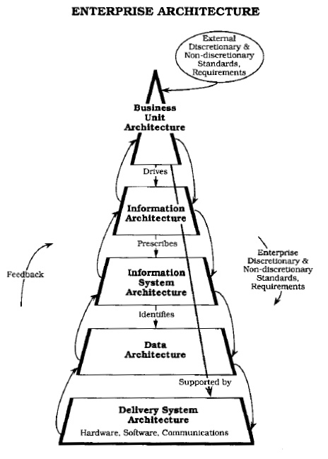 NIST Enterprise Architecture Model, original from 1989